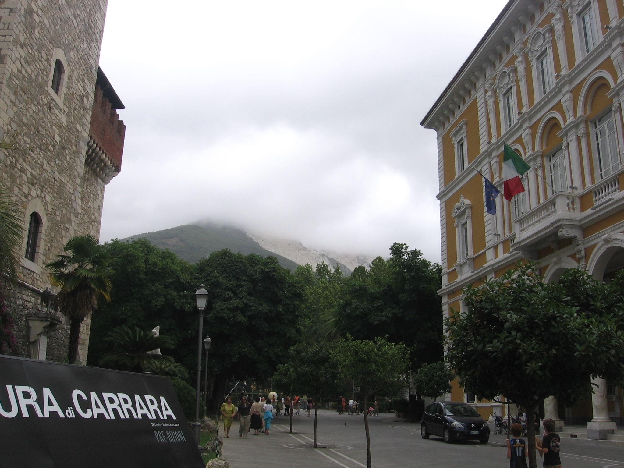 View to marble quarry from square in Carrara: on the left the Ducal Palace, on the right Palace of Banca d'Italia